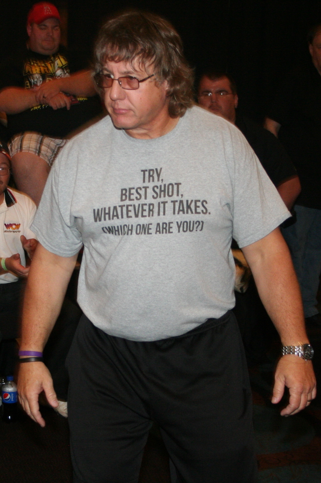 Dr Tom Prichard at the Mid-Atlantic Fanfest in August 2014. Cropped from original image.